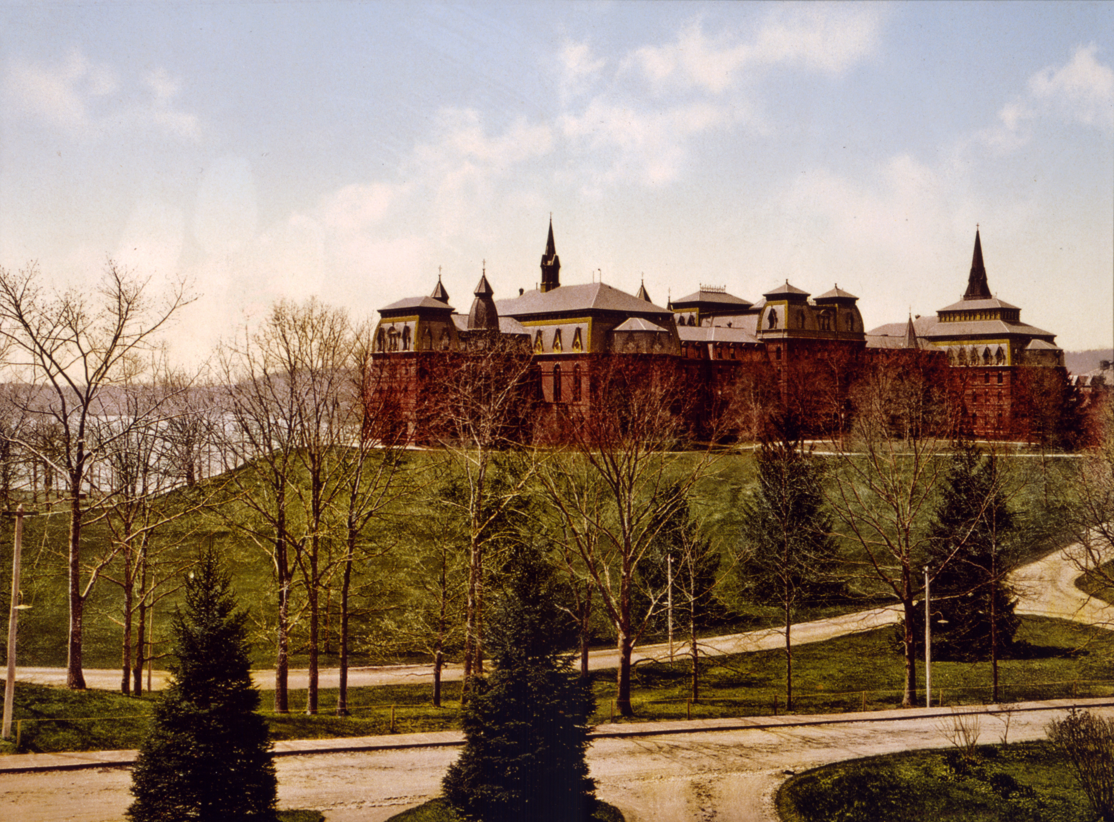 Sea to Shining Sea part 7: The main building of Wellesley College. A women's liberal arts college, in Wellesley, Massachusetts, founded in 1875 by Henry Fowle Durant and his wife Pauline Fowle Durant. A photochrom postcard published by the Detroit Photographic Company. From the Detroit Publishing Co. Collection at the U.S. Library of Congress. More postcards from the United States | More photochrom postcards [PD] This picture is in the public domain.